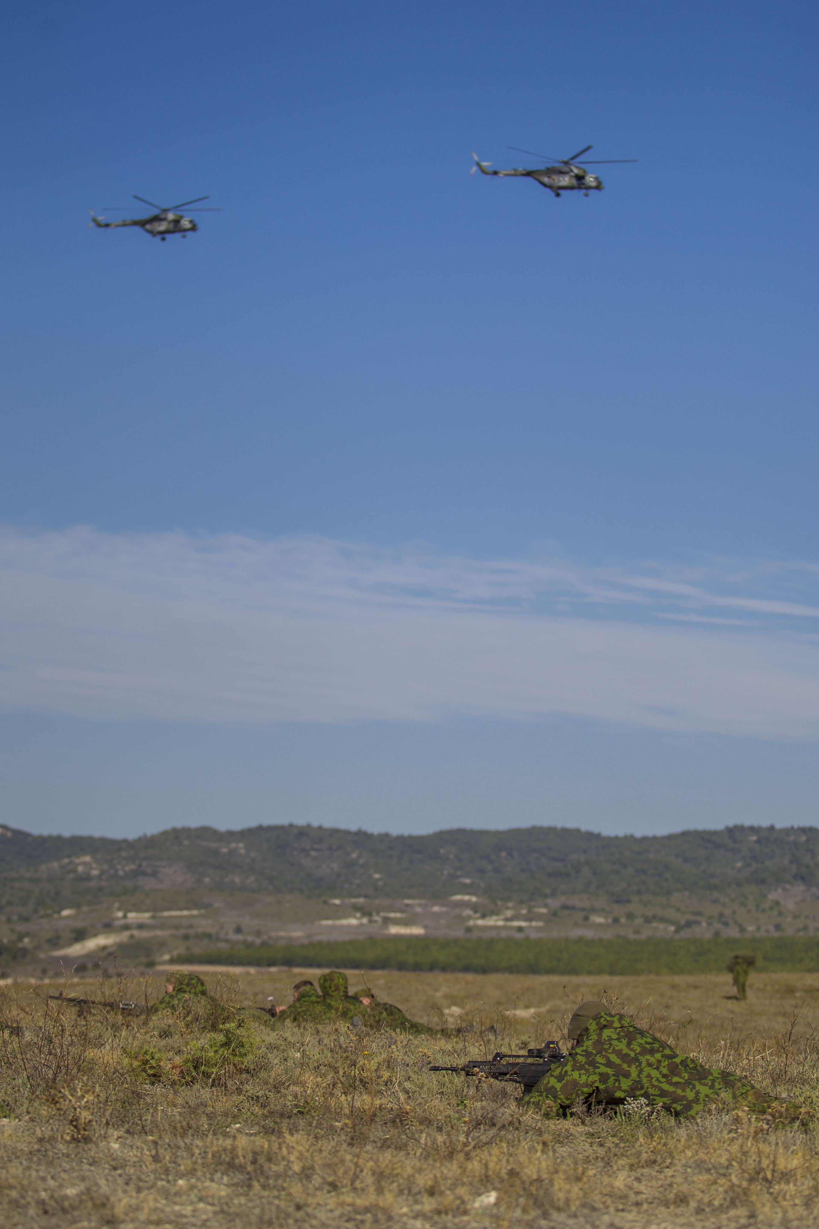 NATO photos by Siim Teder Baltic Battalion Lithuanian team soldiers await in position with helicopter support during City Battle Exercise, Trident Juncture 15 at San Gregorio training area, Spain, October 20, 2015.